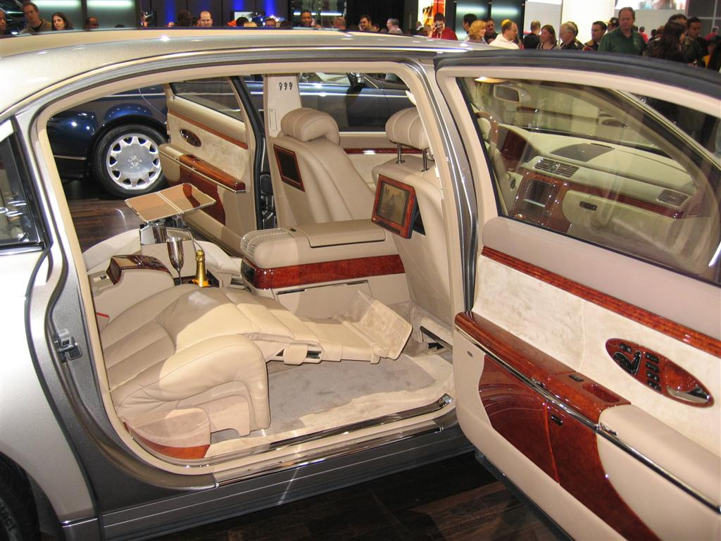 Interior of a 62 Serie